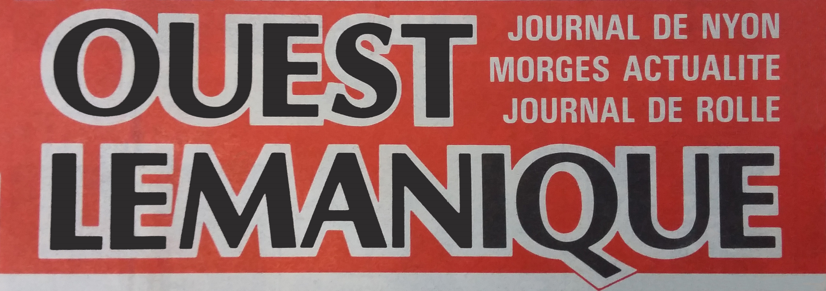 Logo of the former Swiss newspaper Ouest Lémanique